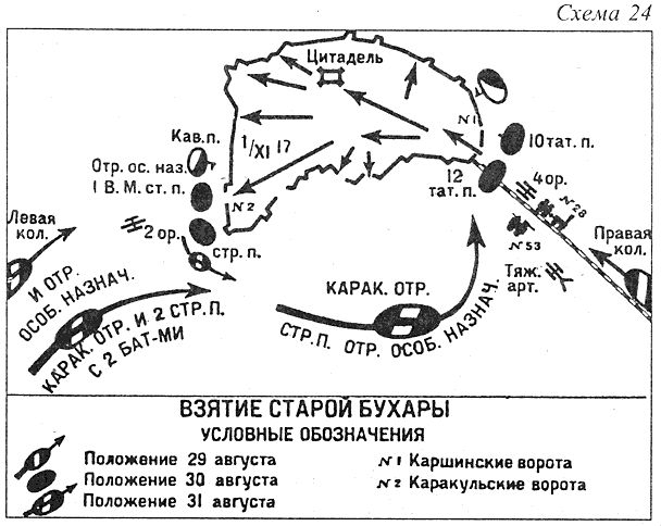 Storm of a city fortress, Bukhara 1920